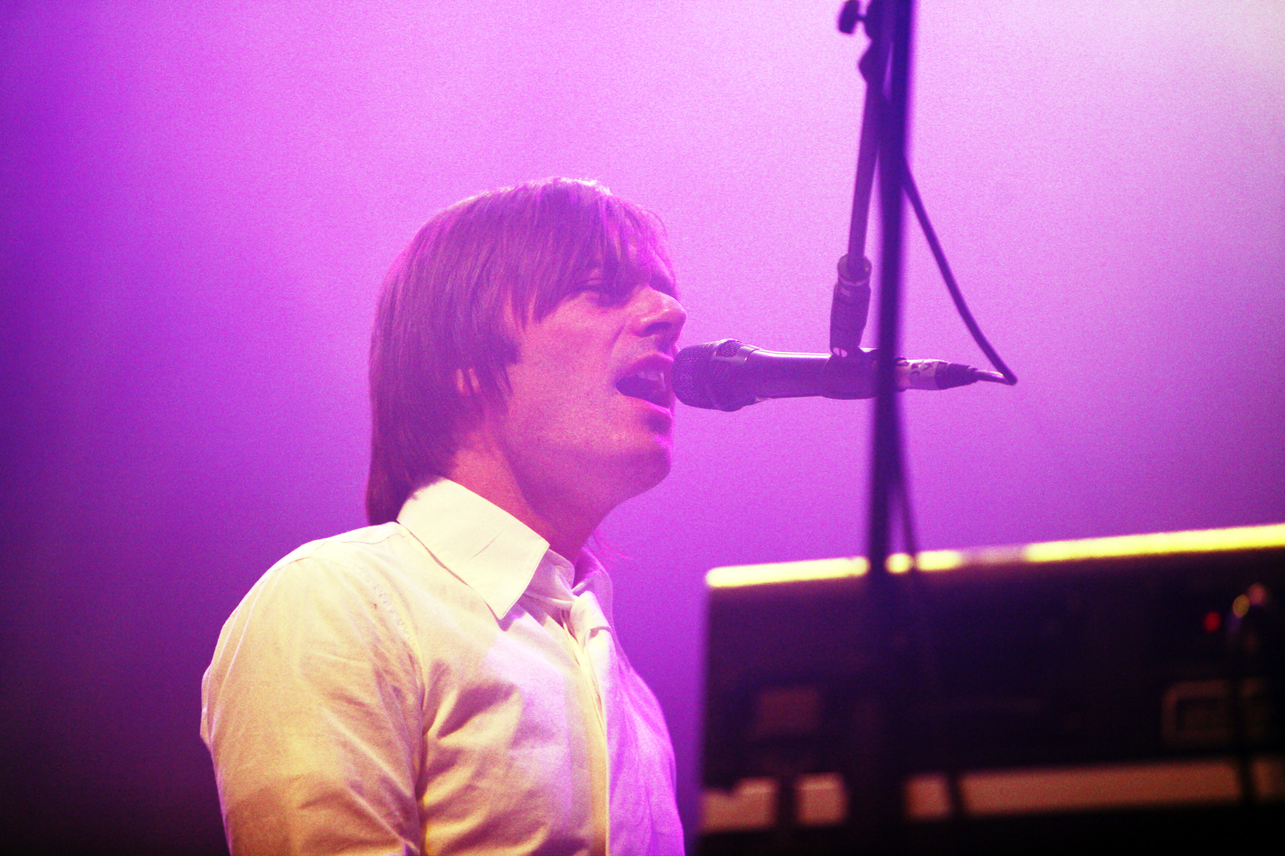 Air at the Eurockéennes of 2007